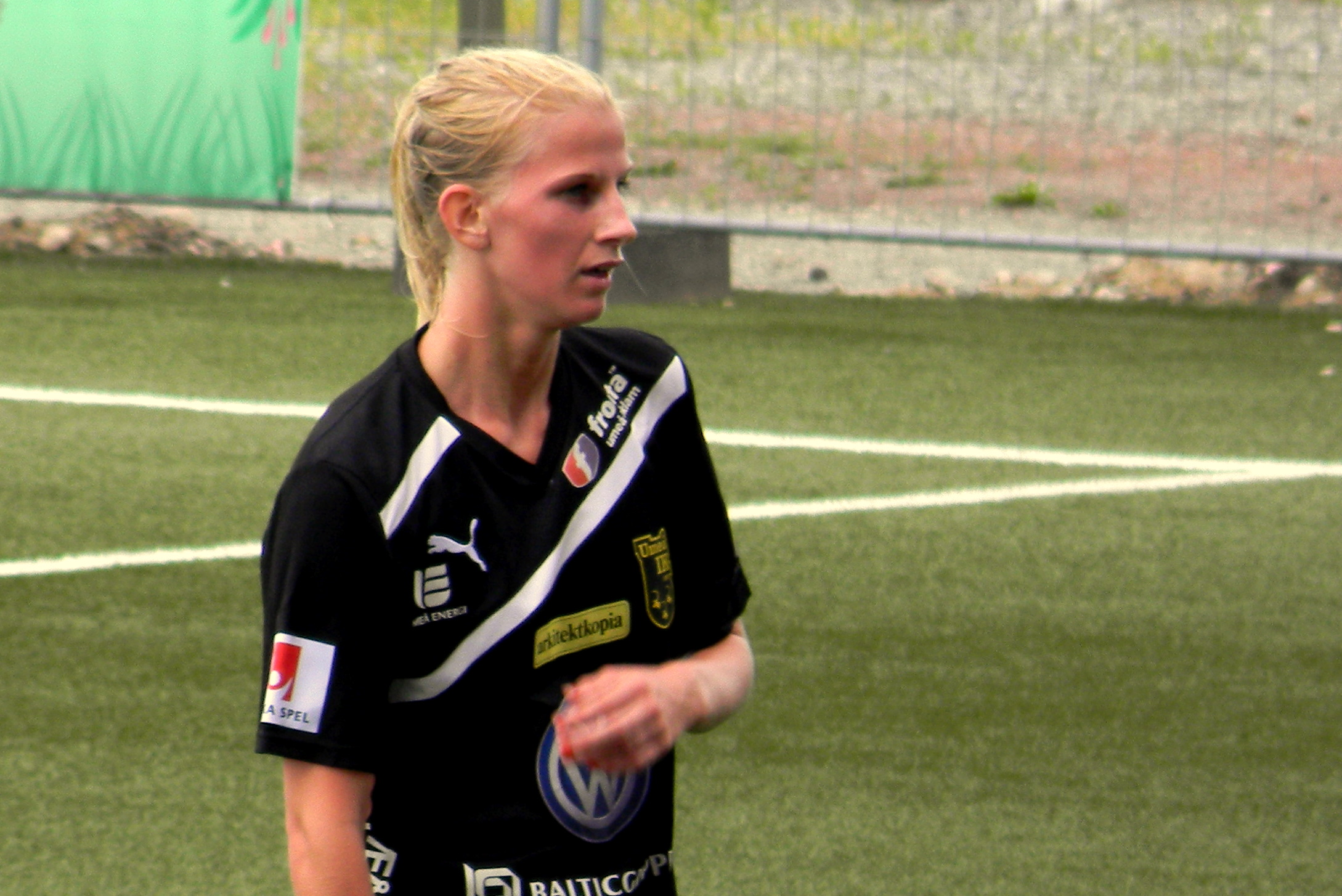 Sofia Jakobsson, a swedish player from Umeå IK